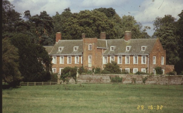 Harrington Hall Associated with Tennyson's 'Come into the garden, Maud'